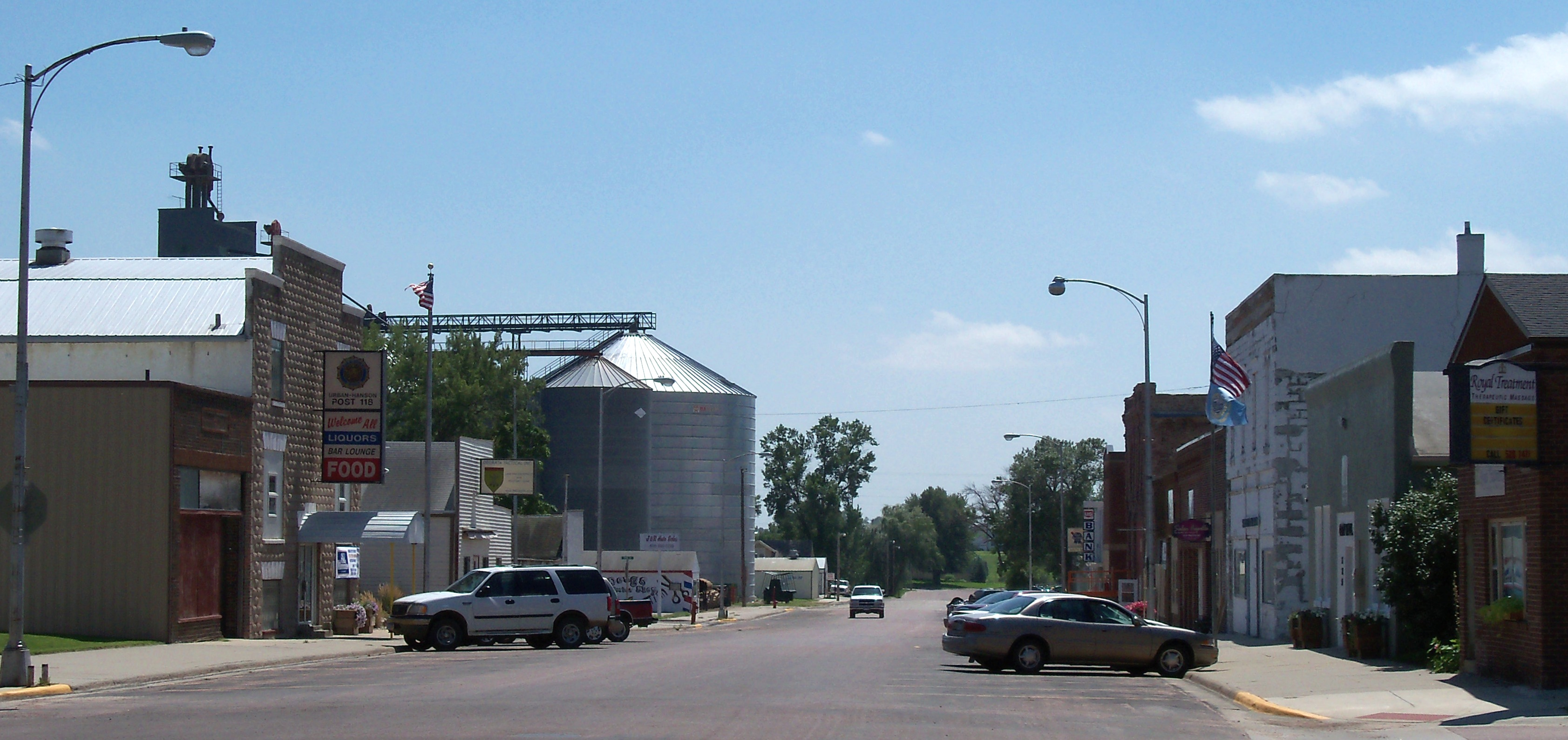 Downtown Hartford, South Dakota, USA.